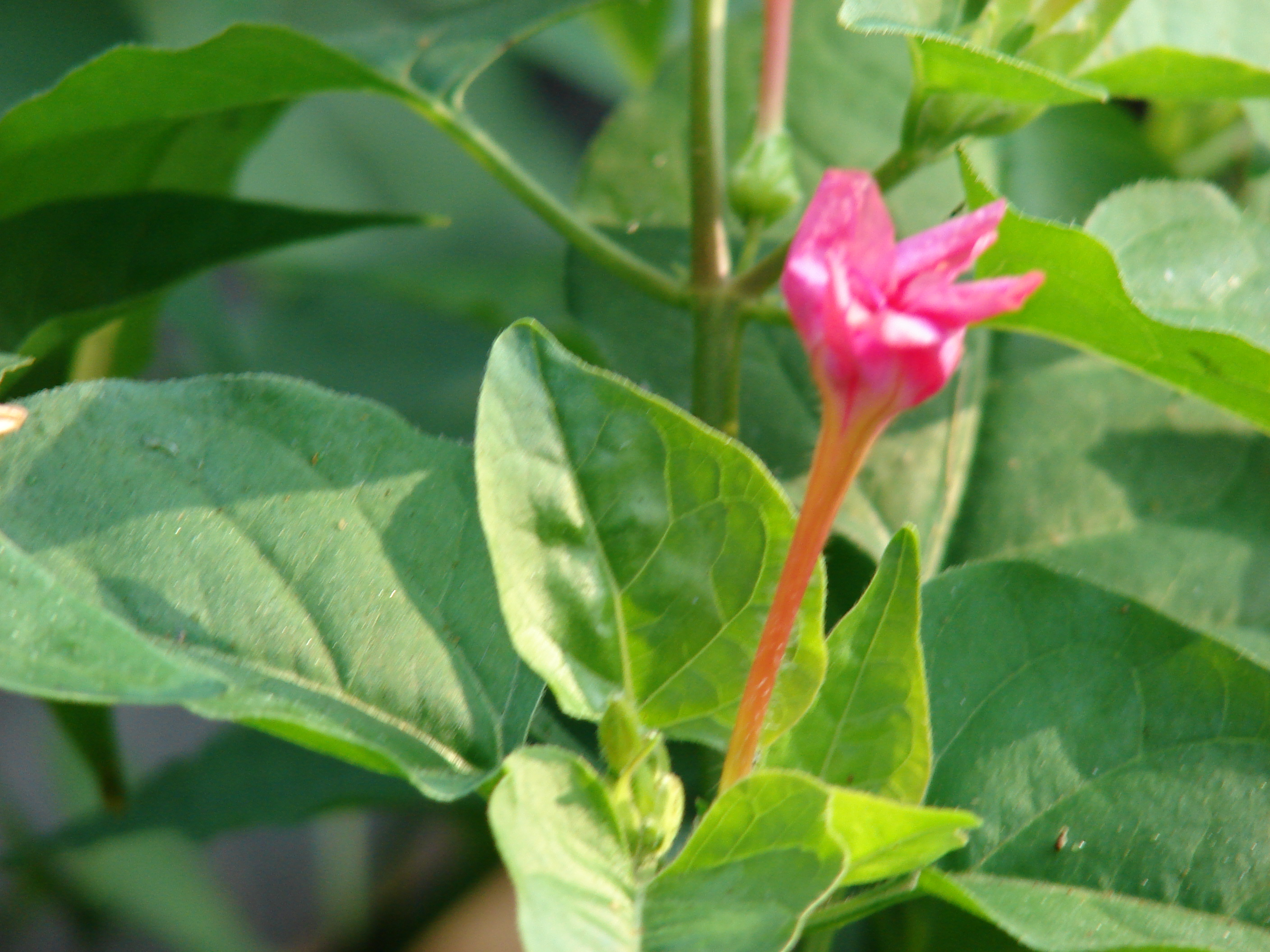 Mirabilis jalapa (flowers and leaves). Location: Midway Atoll, Commodore Ave around residences Sand Island